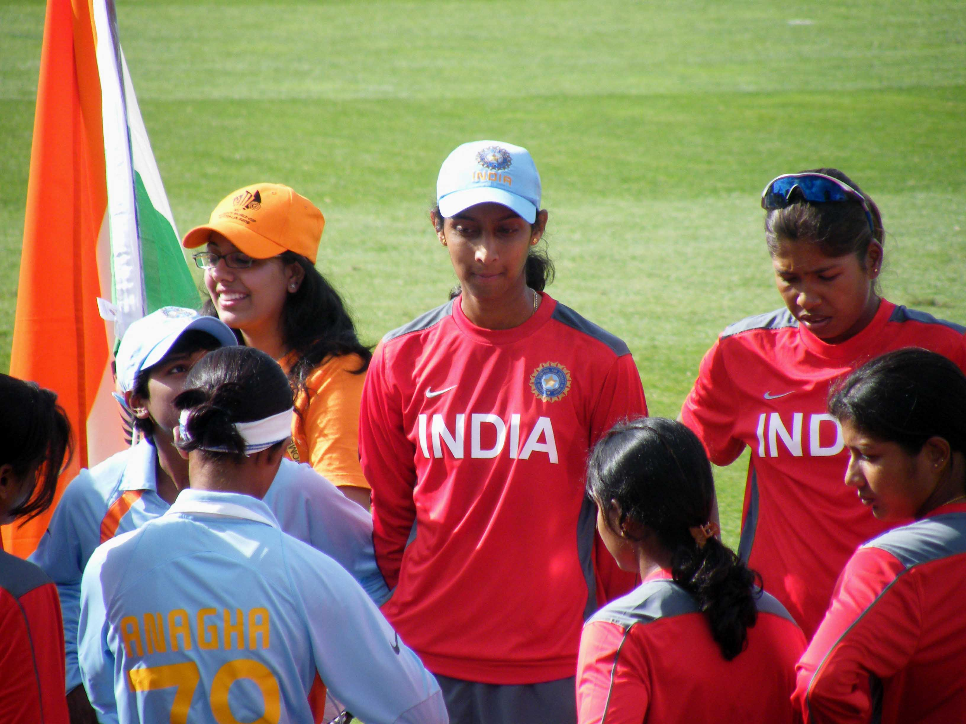 Snehal Pradhan of India - ICC Women's Cricket World Cup, Sydney, March 2009.